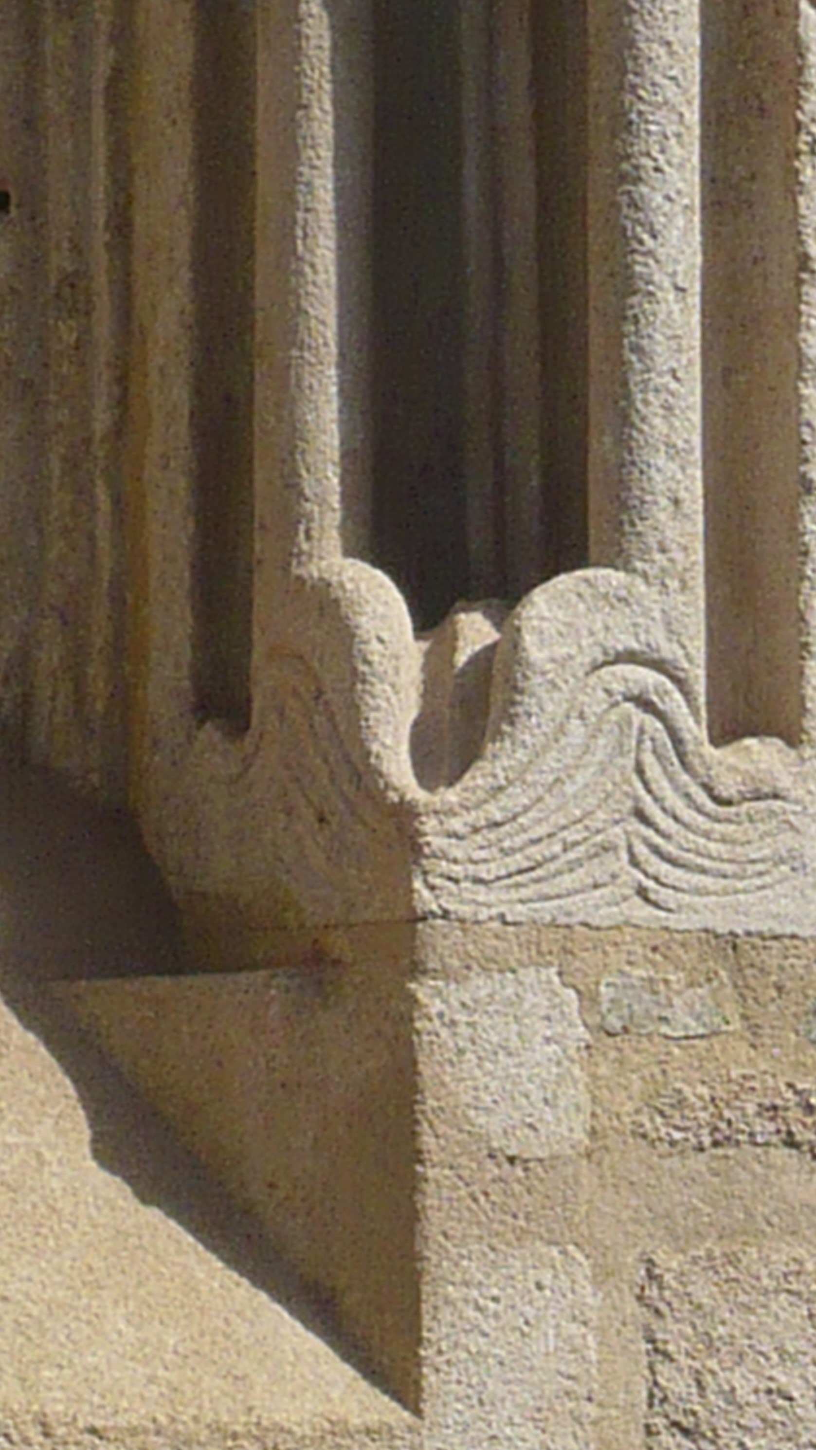 Brno Zábrdovice, Premonstratensian abbey - Romanesque window - plinth block ca 1210